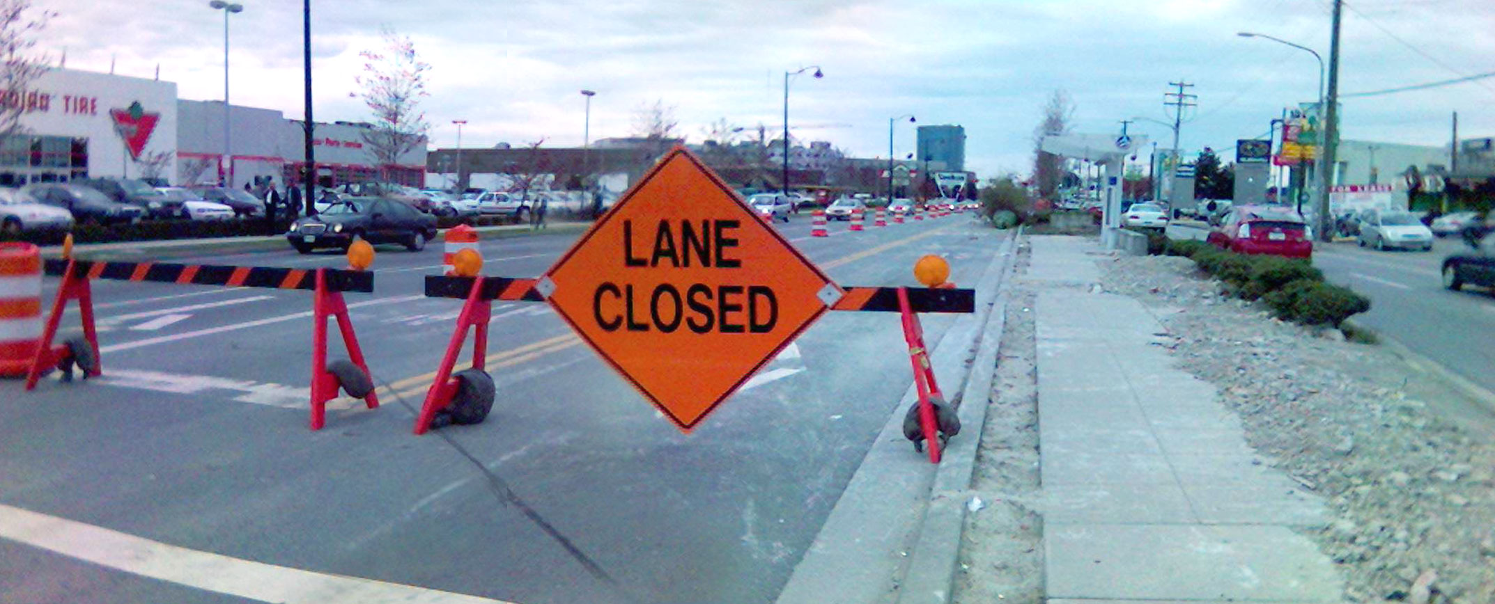 Lane construction for the en:98 B-Line.